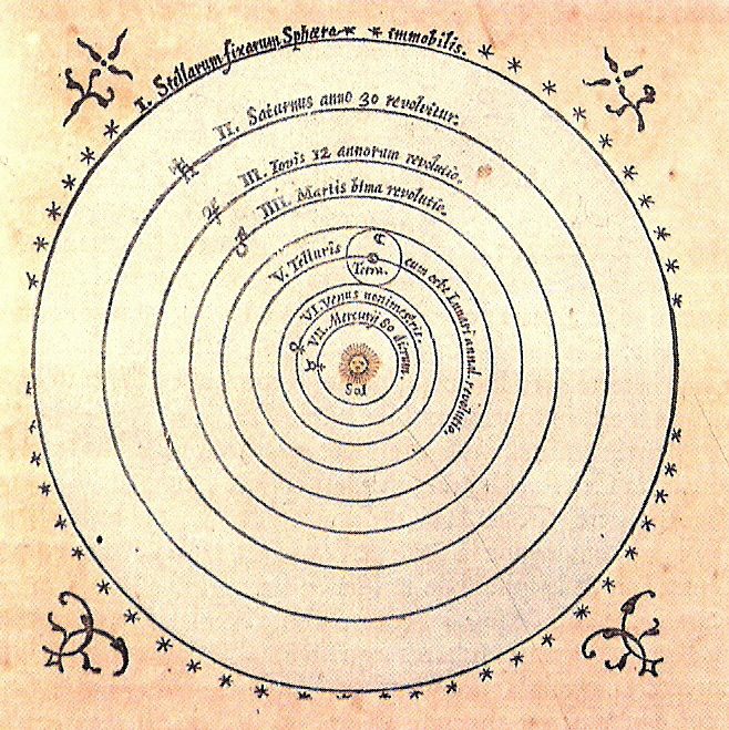 The sky according to Copernicus